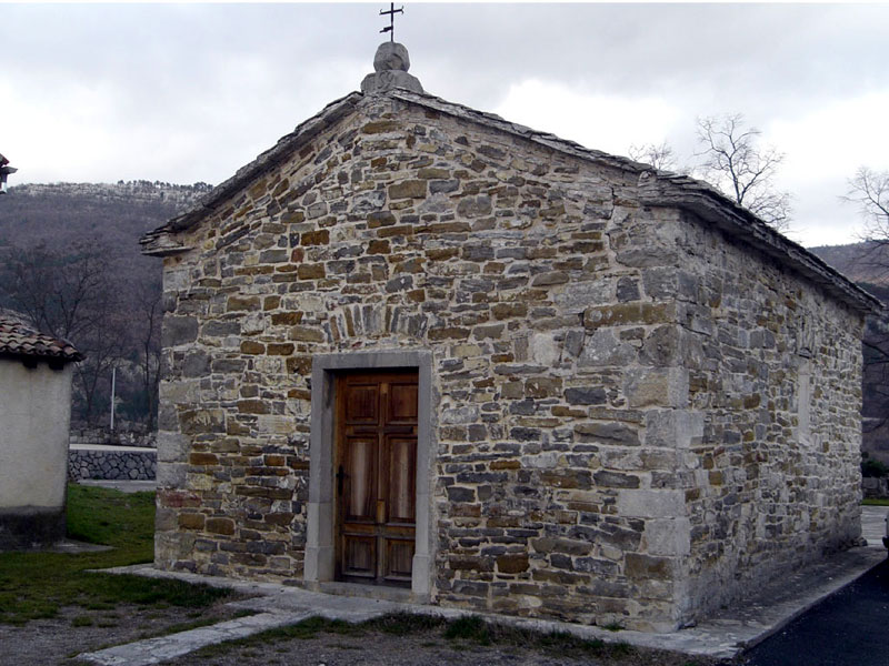 A house in Roč, Istria, Croatia